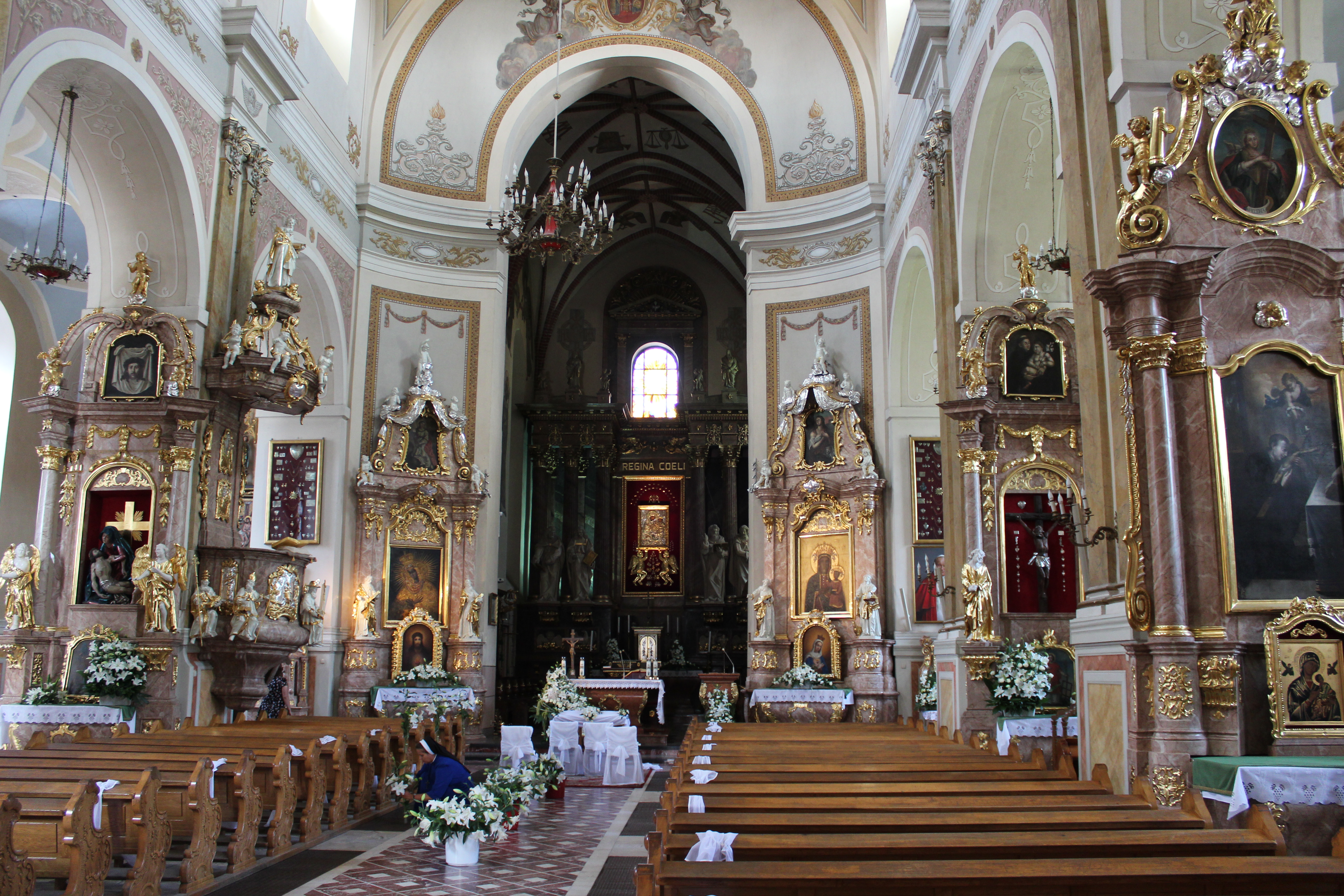 Church of the Assumption in Kalisz